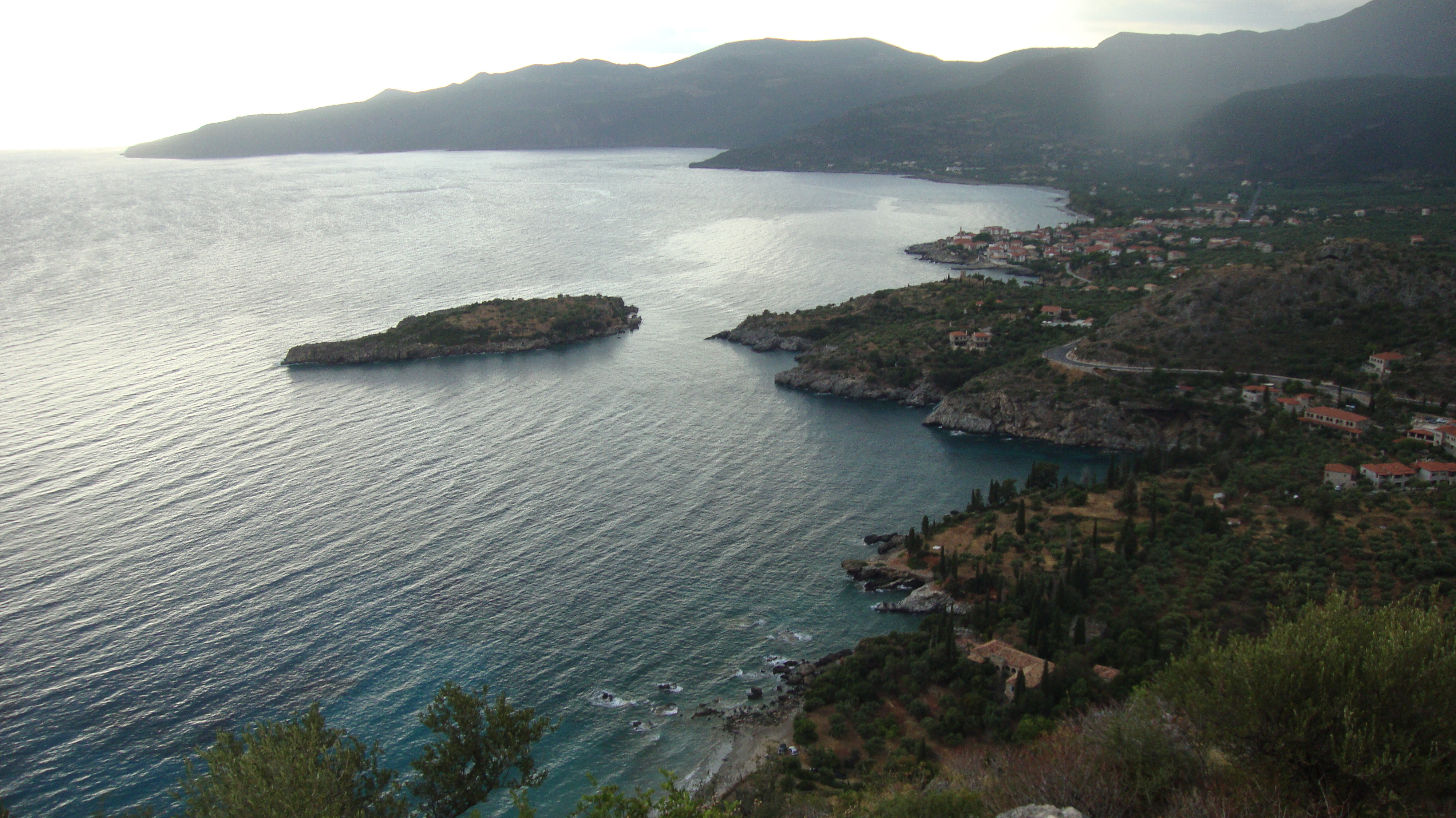 view on Kardamili from South